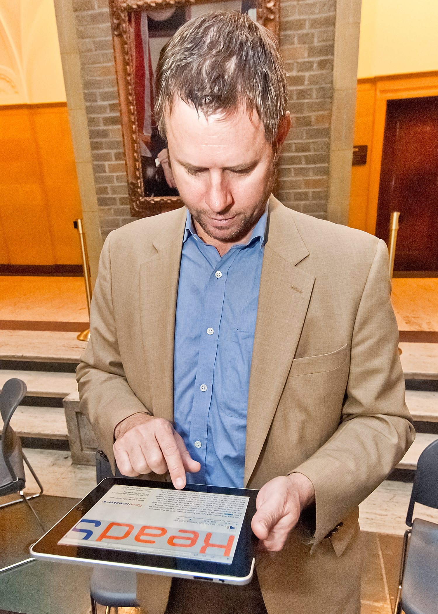 Chief Operations Officer of FEDVC Torsten Oberst demonstrates how their software reads any web content/text into an audio Cloud service at the U. S. Department of Agriculture (USDA) Section 508 and Disability Awareness Program in Washington, DC, on Monday, Oct. 31, 2011. Sponsored by the Office of the Chief Information Officer, the theme of the event was, “Turning the Key to Unlock and Eliminate Barriers by Providing Accessibility to All.” Section 508 applies to the development, procurement, maintenance or use of electronic and information technology allowing accessibility and awareness to promote inclusiveness to employees and the public with disabilities to information technology managed by the Federal government. Section 508 is part of the USDA’s Cultural Transformation Initiative to hire more employees with disabilities. USDA photo by Bob Nichols.